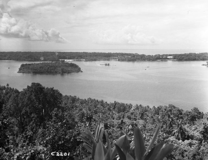 Looking from Mono Island, across Blanche Harbour, to Stirling Island, Solomon Islands, during World War 2. Photographer unidentified. New Zealand. Department of Internal Affairs. War History Branch :Photographs relating to World War 1914-1918, World War 1939-1945, occupation of Japan, Korean War, and Malayan Emergency. Ref: 1/2-044769-F. Alexander Turnbull Library, Wellington, New Zealand.